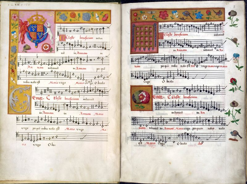 Motet 'Celeste beneficium' by Jean Mouton, Royal 8 G.vii, ff. 2v-3 from a sumptuous choirbook made for King Henry VIII of England 1509-1547).